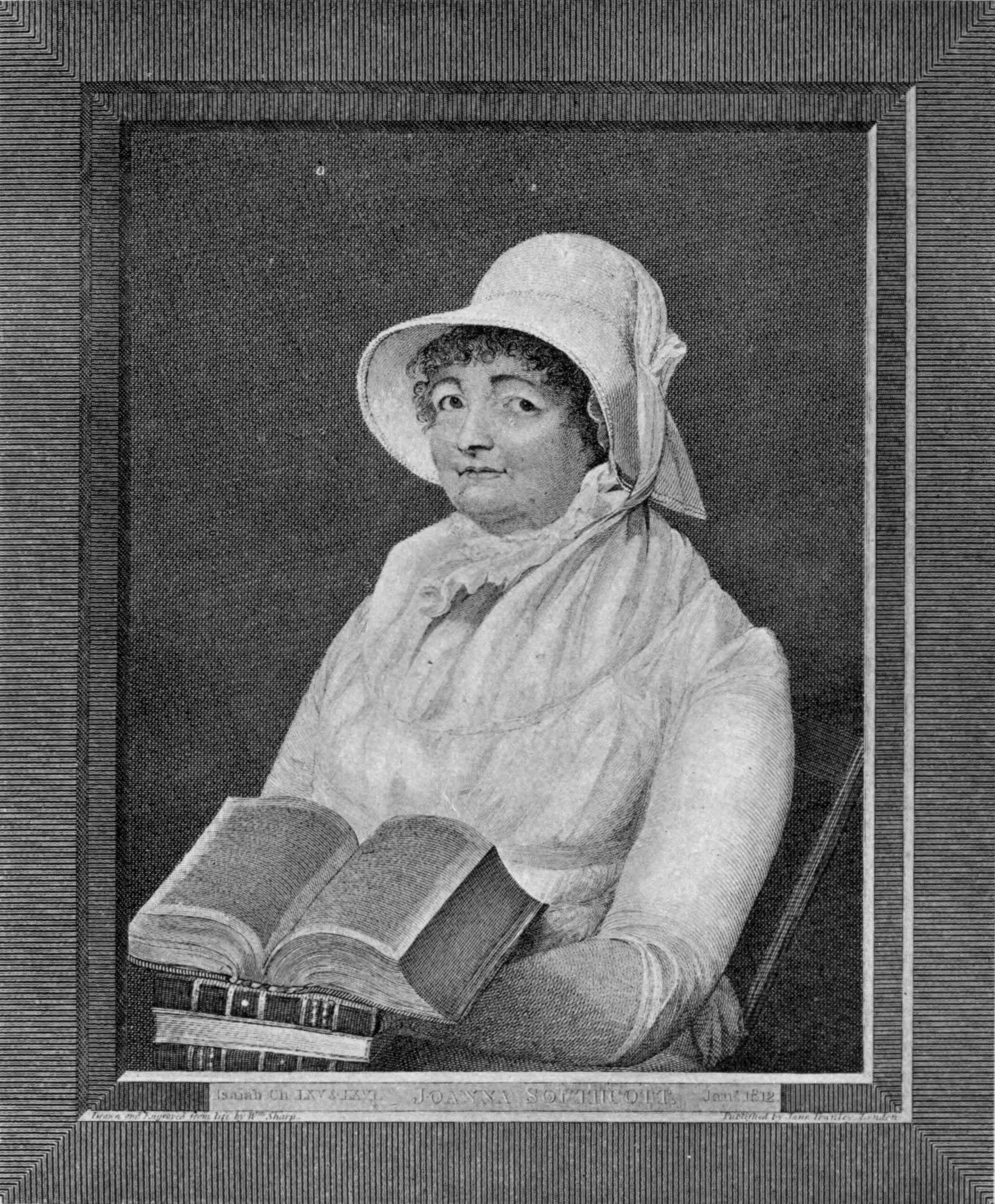 An image from a book, the removed caption is "Joanna Southcott Drawn from life by Wm. Sharp"